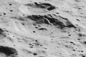 Oblique view of Siedentopf crater, on the far side of the moon, facing west